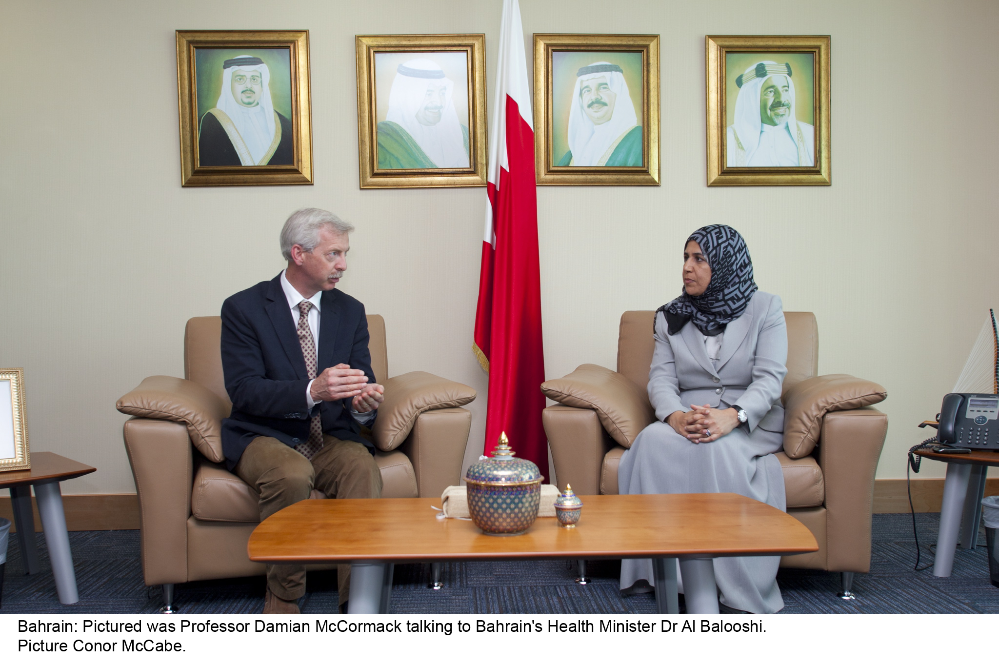 Bahrain: Pictured was Professor Damian McCormack talking to Bahrain's Health Minister Dr Al Balooshi